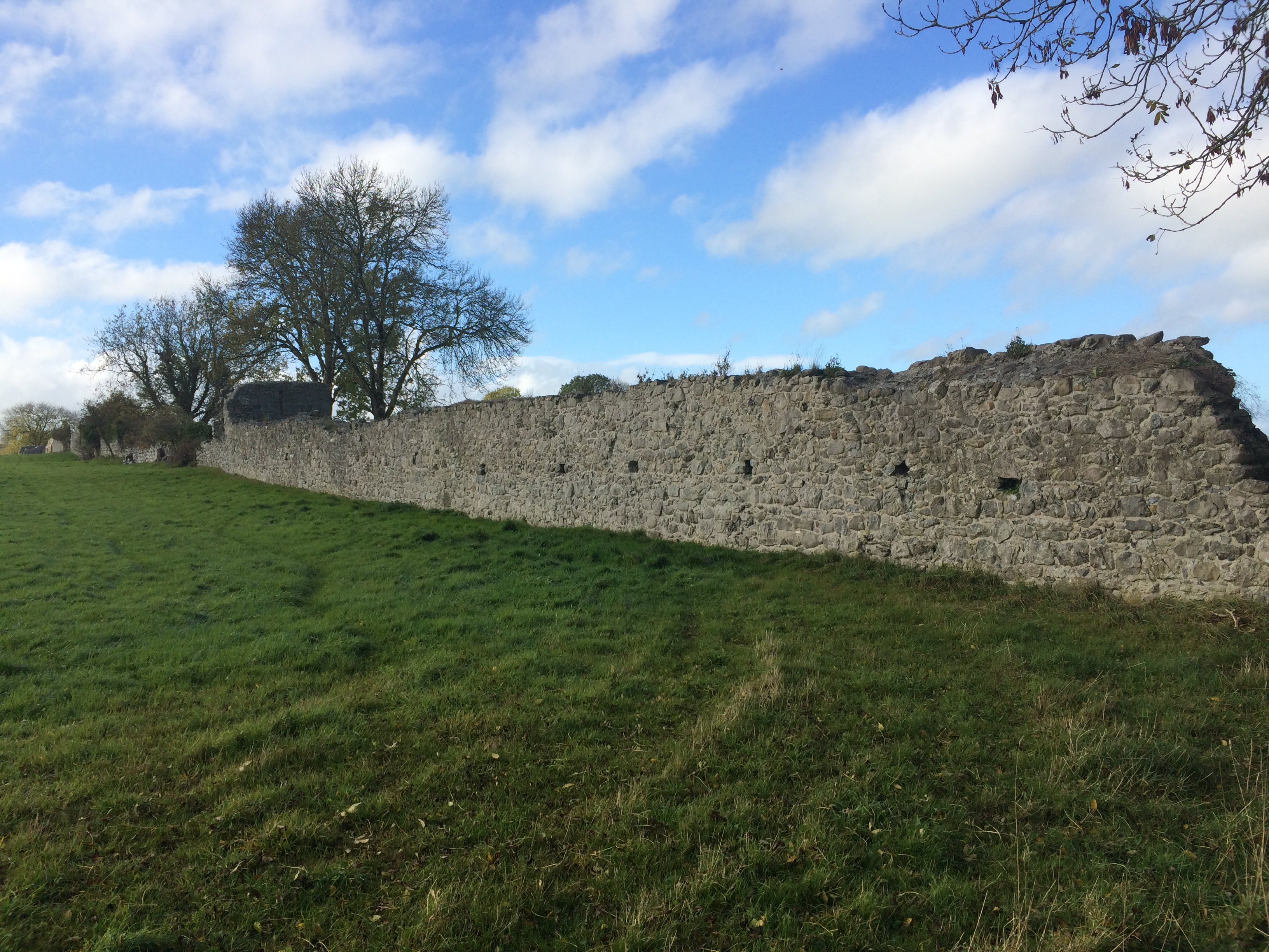 Rindoon Wall 28-10-2015